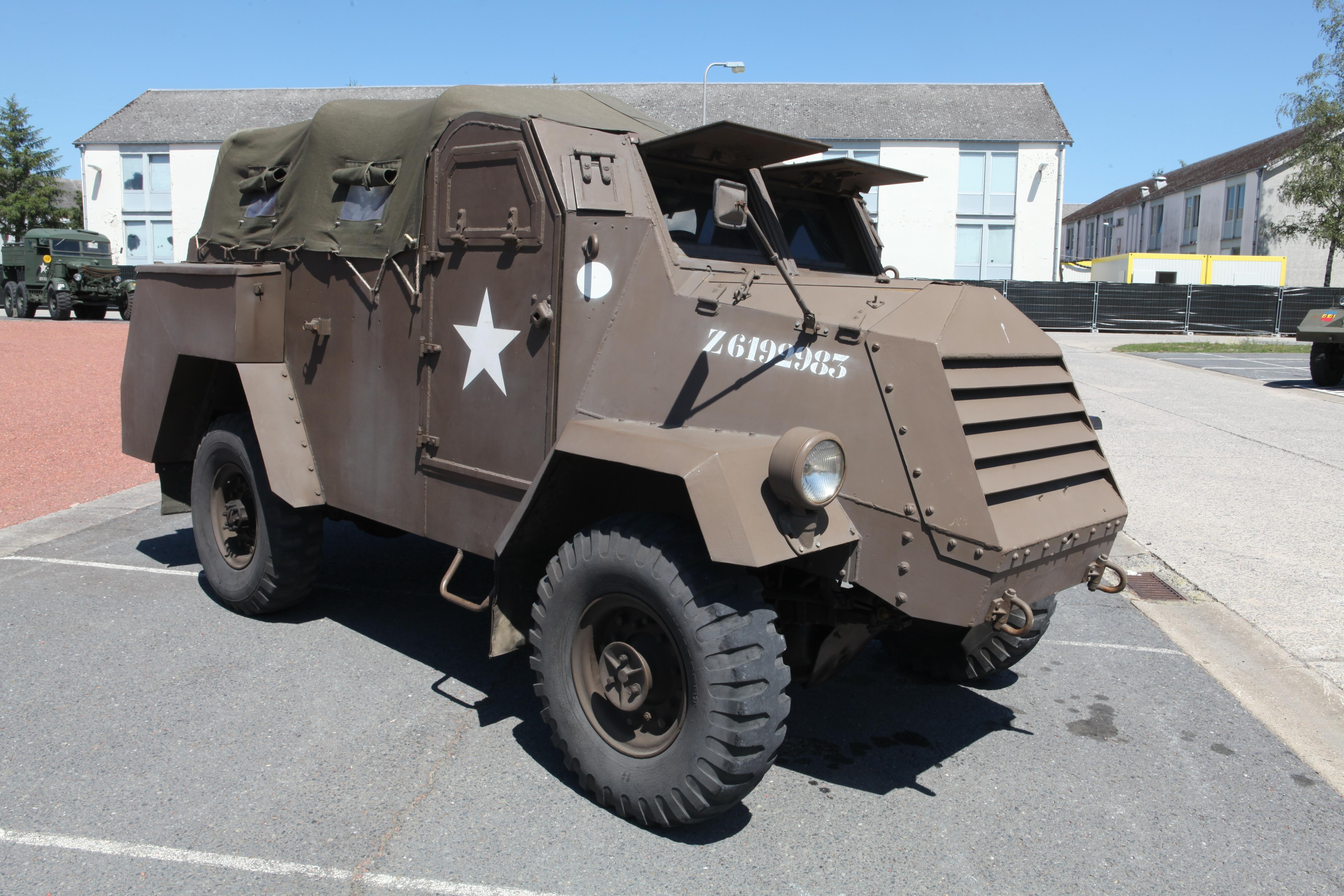 C15TA Armoured Truck